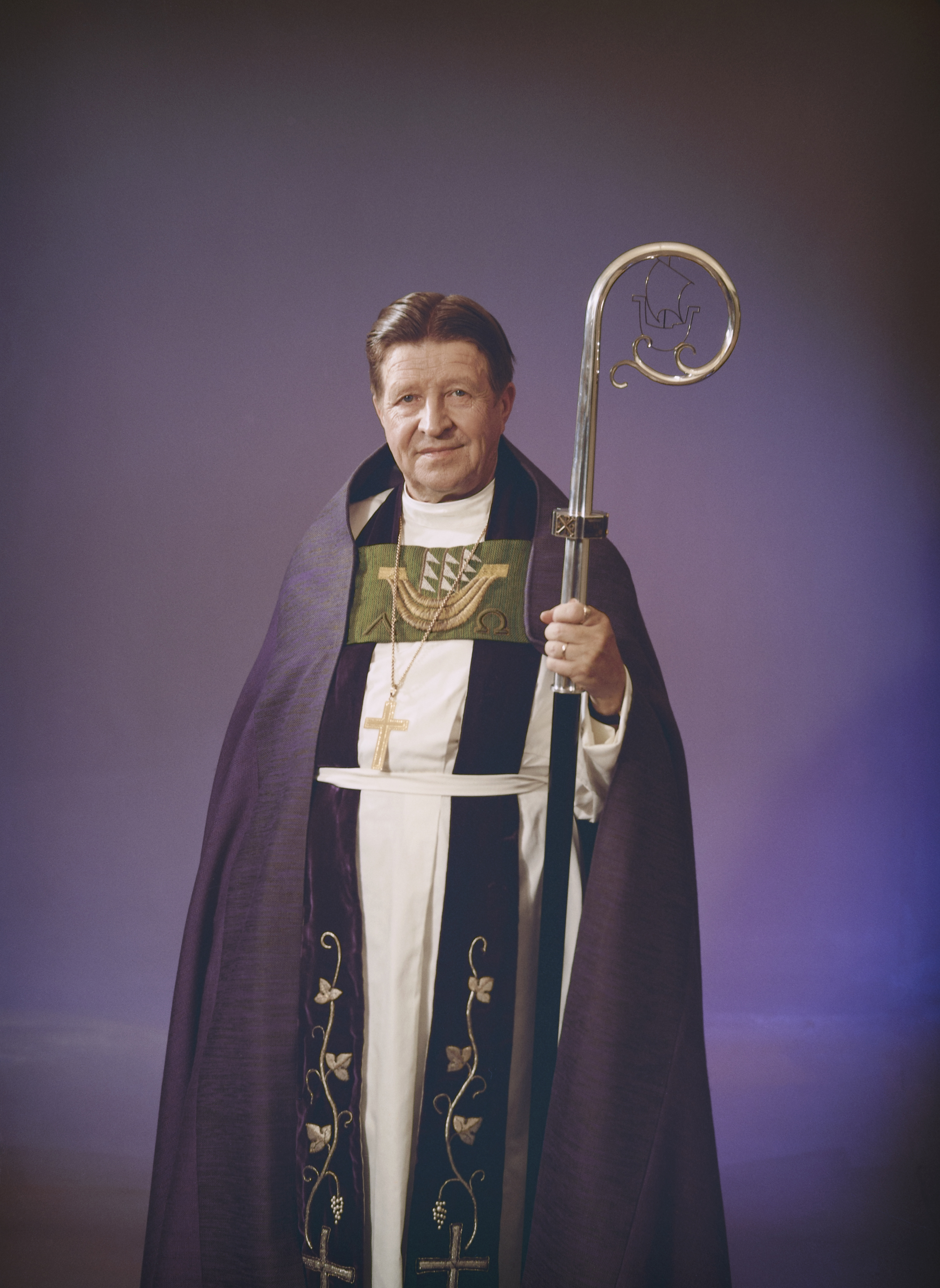 Photograph of the Finnish Lutheran bishop Aimo T. Nikolainen (1912–1995).